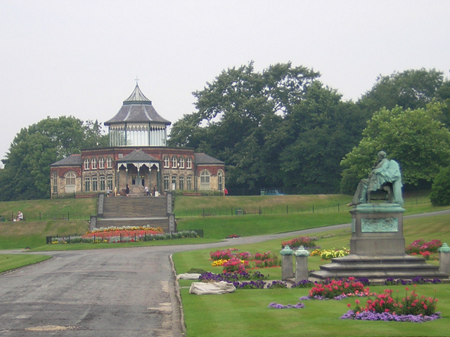 Mesnes Park, Wigan. Pronounced "Mains" Park (the word derives from desmesnes, the ancient term for the land of the lord of the manor), the park provides attractively cultivated breathing-space and quaint Victorian architecture, such as the cafe building featured here, close to the town centre of Wigan.